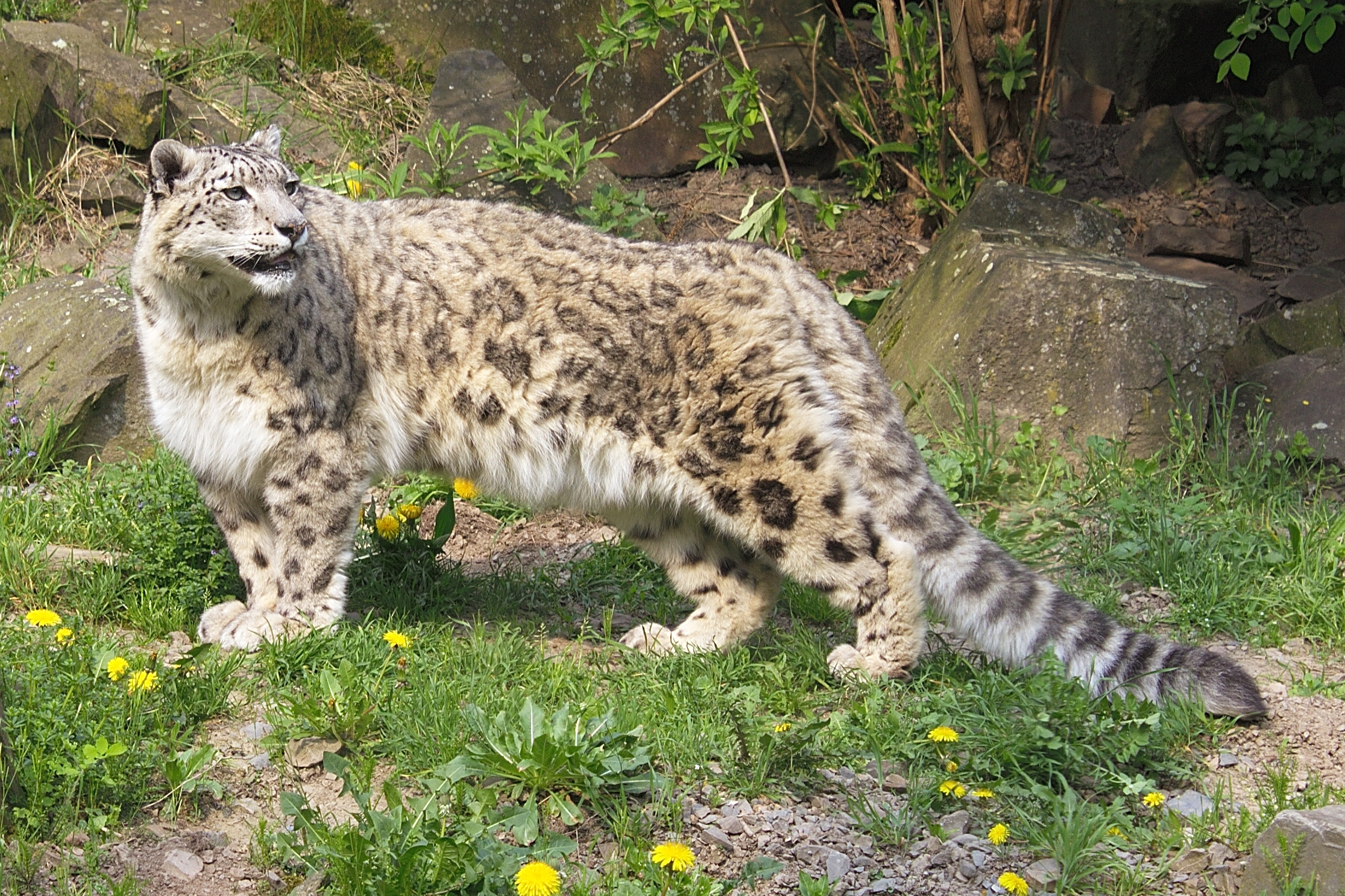 Snow Leopard Uncia uncia in Cologne Zoo